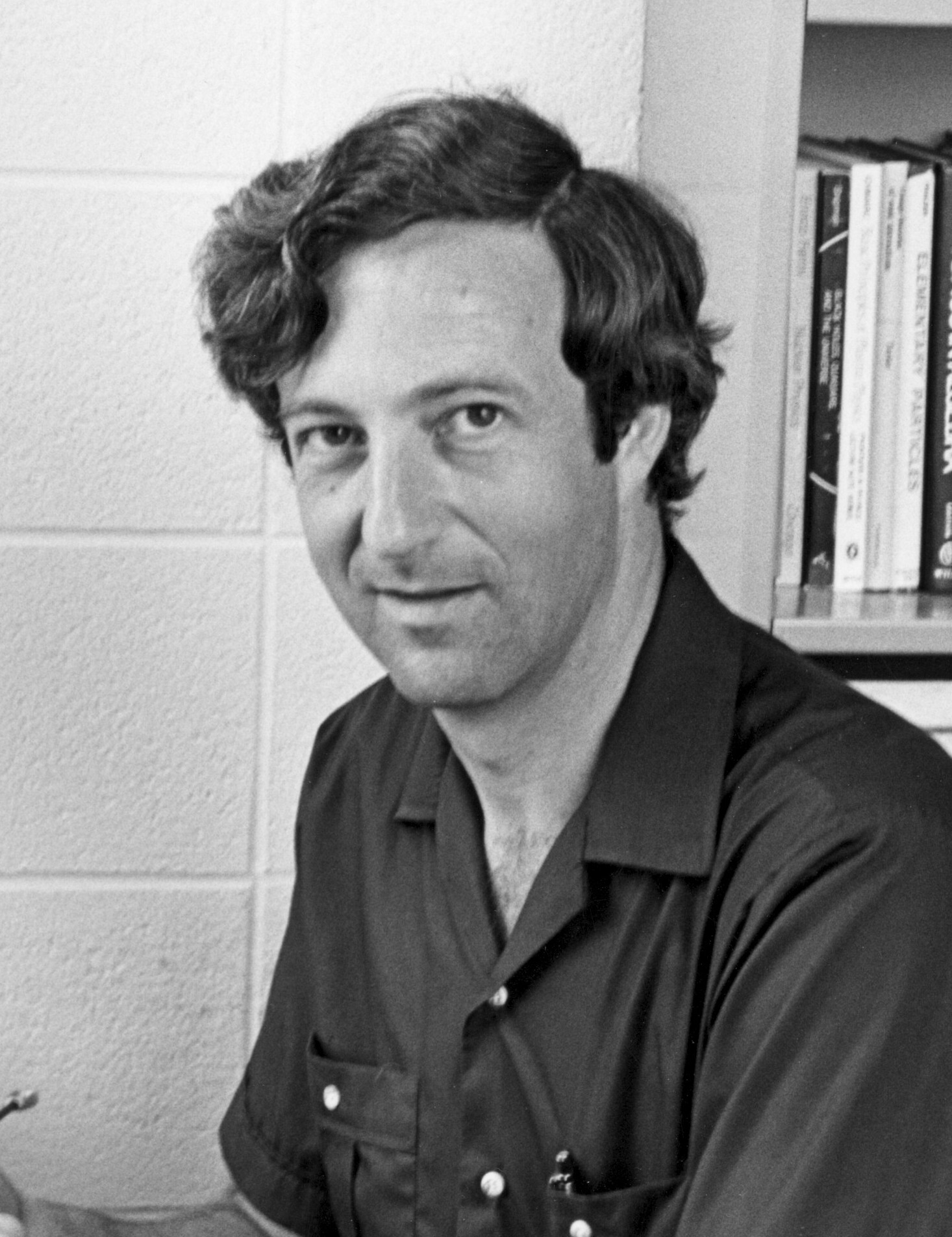 Cornell physicist Saul Teukolsky in a 1975 photo